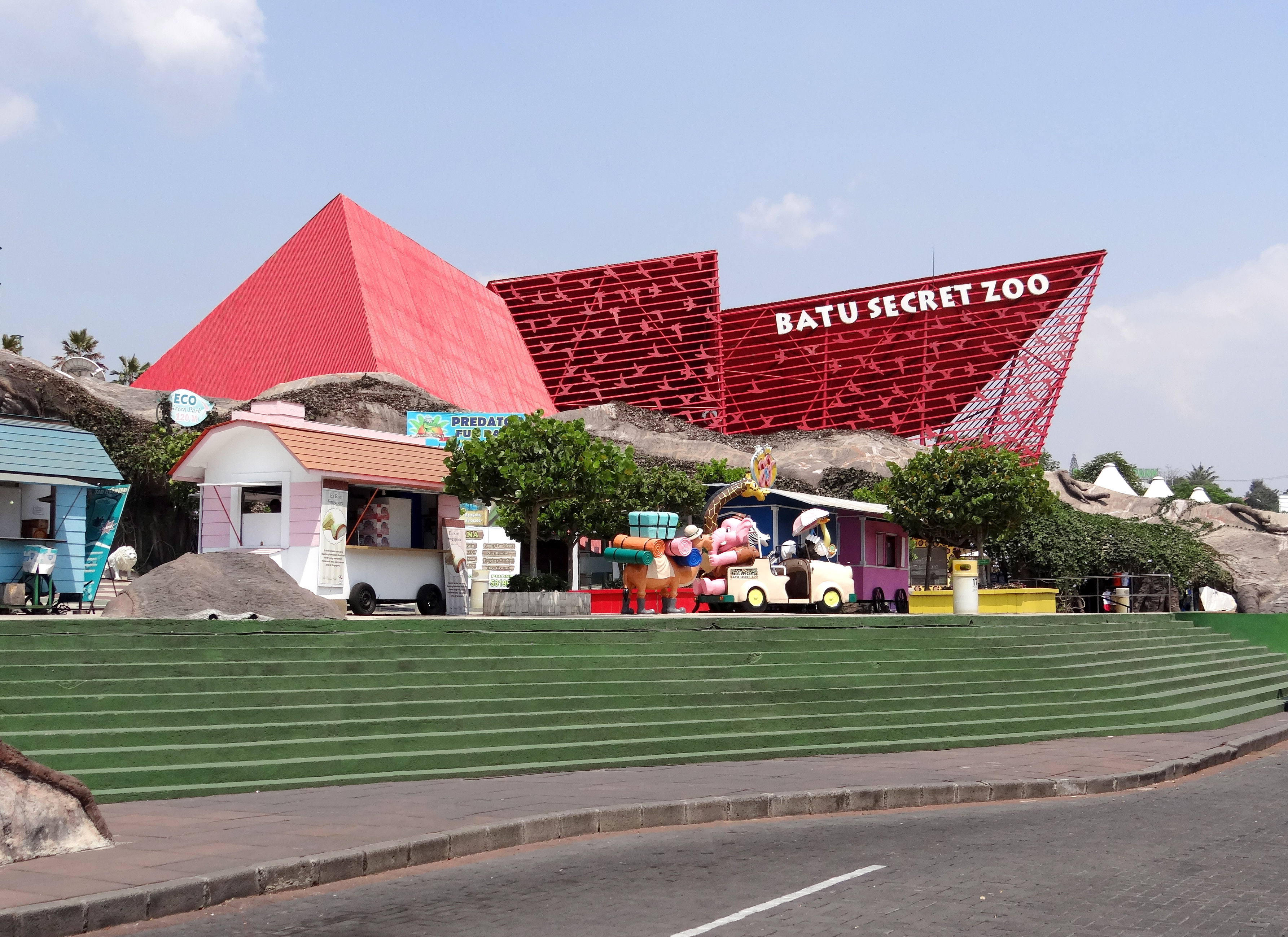 The entrance pavilion of Batu Secret Zoo.